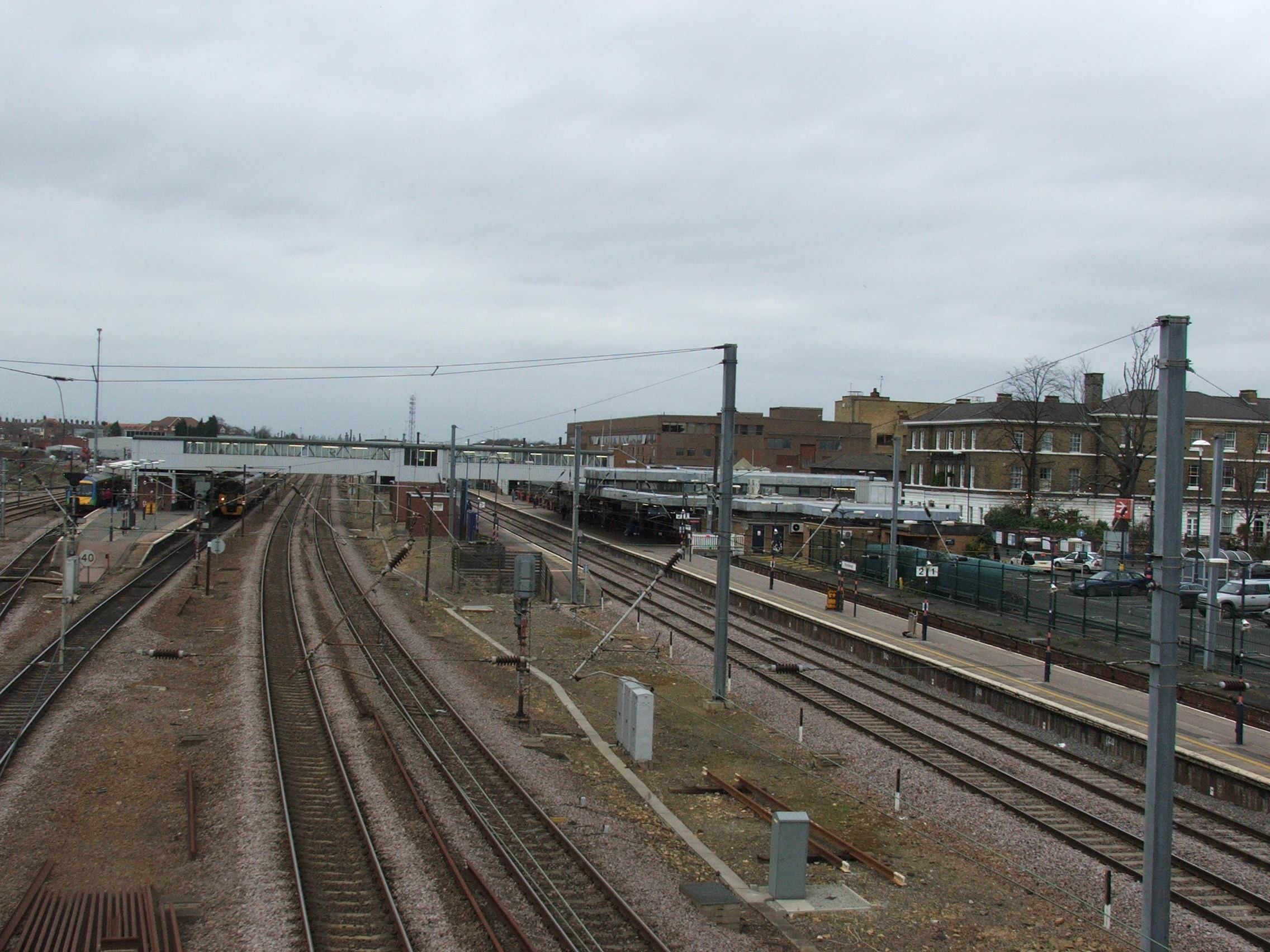 Train station in Peterborough, England, UK